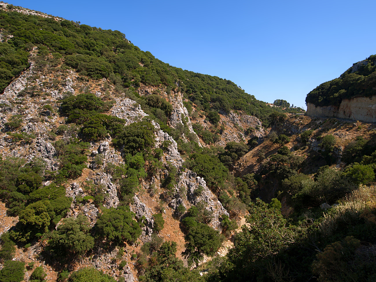 View of the Arkadi gorge from the road up to the Arkadi Monastery.